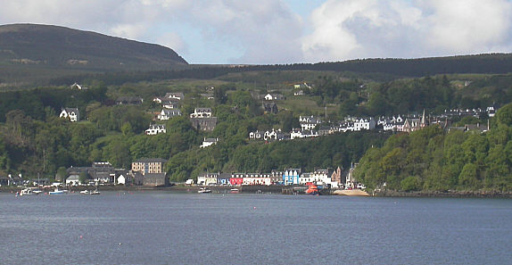 Tobermory, Mull from the Oban to Lochboisdale ferry in the Sound of Mull.